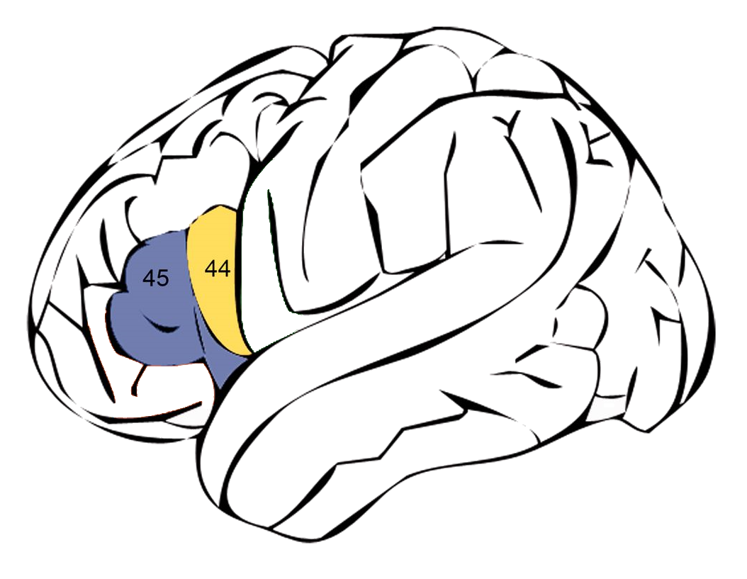 Schematic drawing of the lateral view of the left hemisphere and the position of the classic Broca’s area defined as encompassing Brodmann’s areas (BA) 44 (yellow) and 45 (blue).